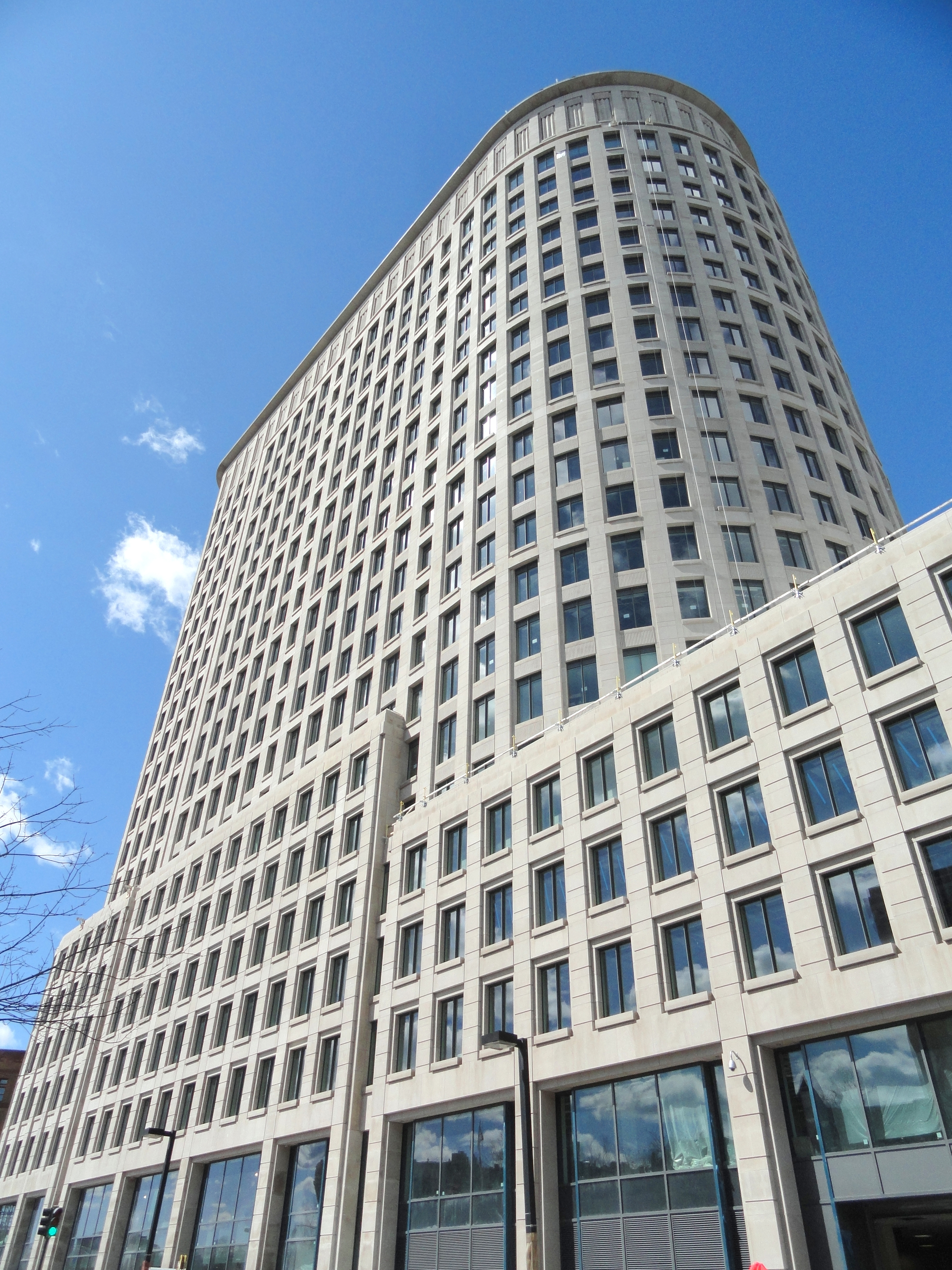 Liberty Mutual Tower, 157 Berkeley Street, Boston, Massachusetts, USA.